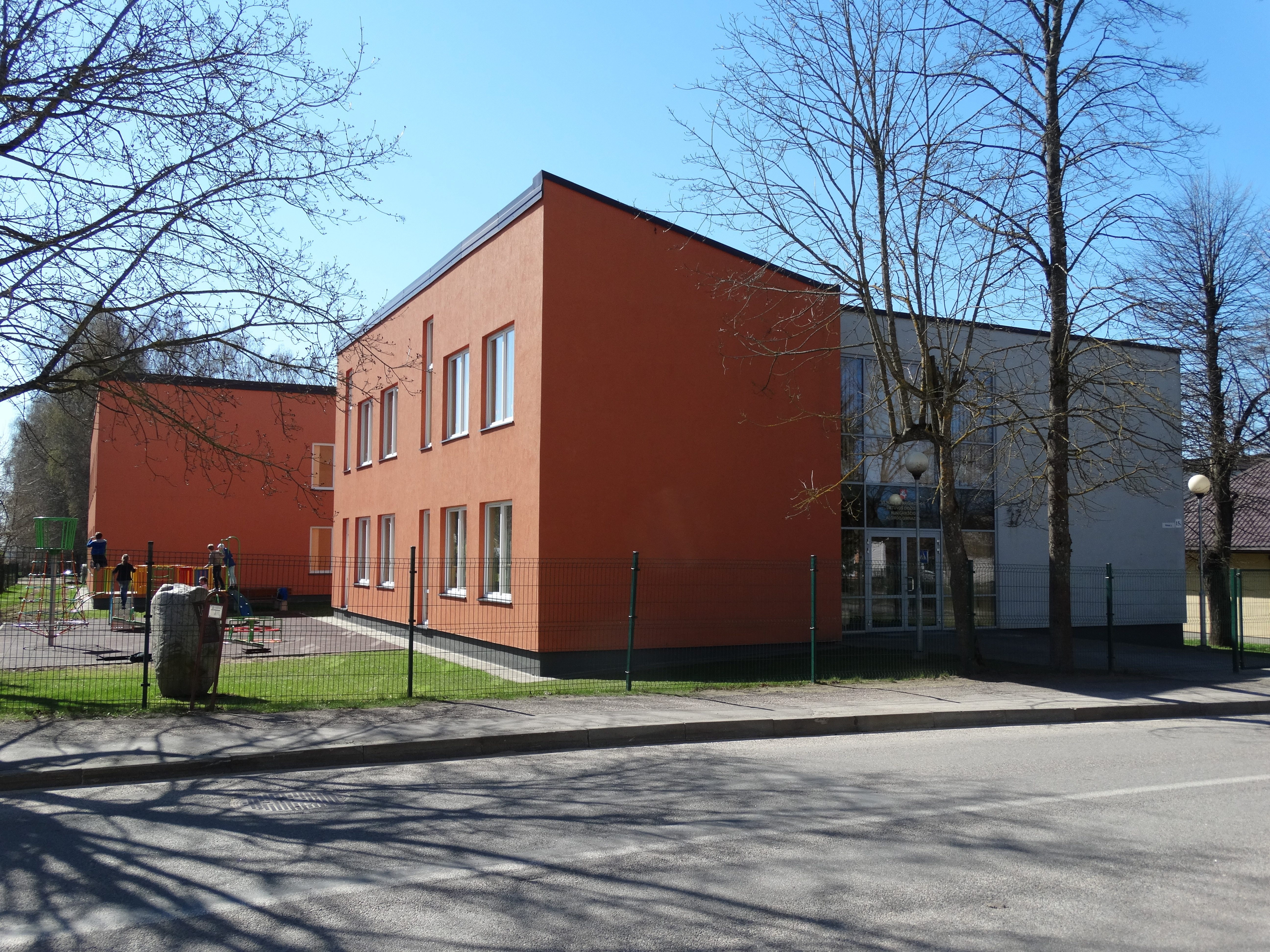 Grand Duke Algirdas Gymnasium, Maišiagala, Vilnius district, Lithuania